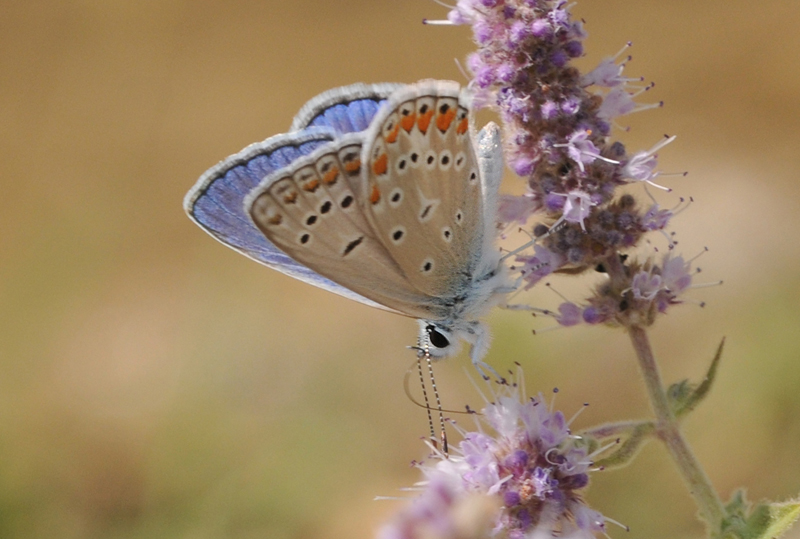 Wing underside view of a male Chapman's Blue (Polyommatus thersites). Saimbeyli, Adana - Turkey.